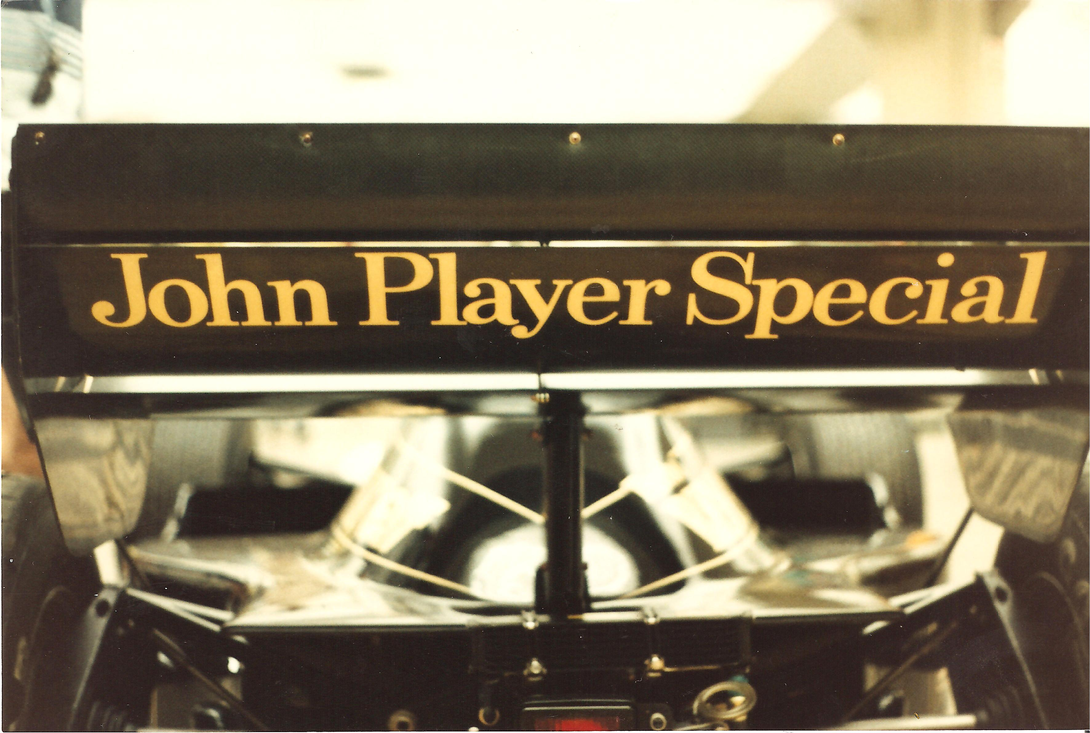 Rear wing of Lotus 95T Formula 1 car.